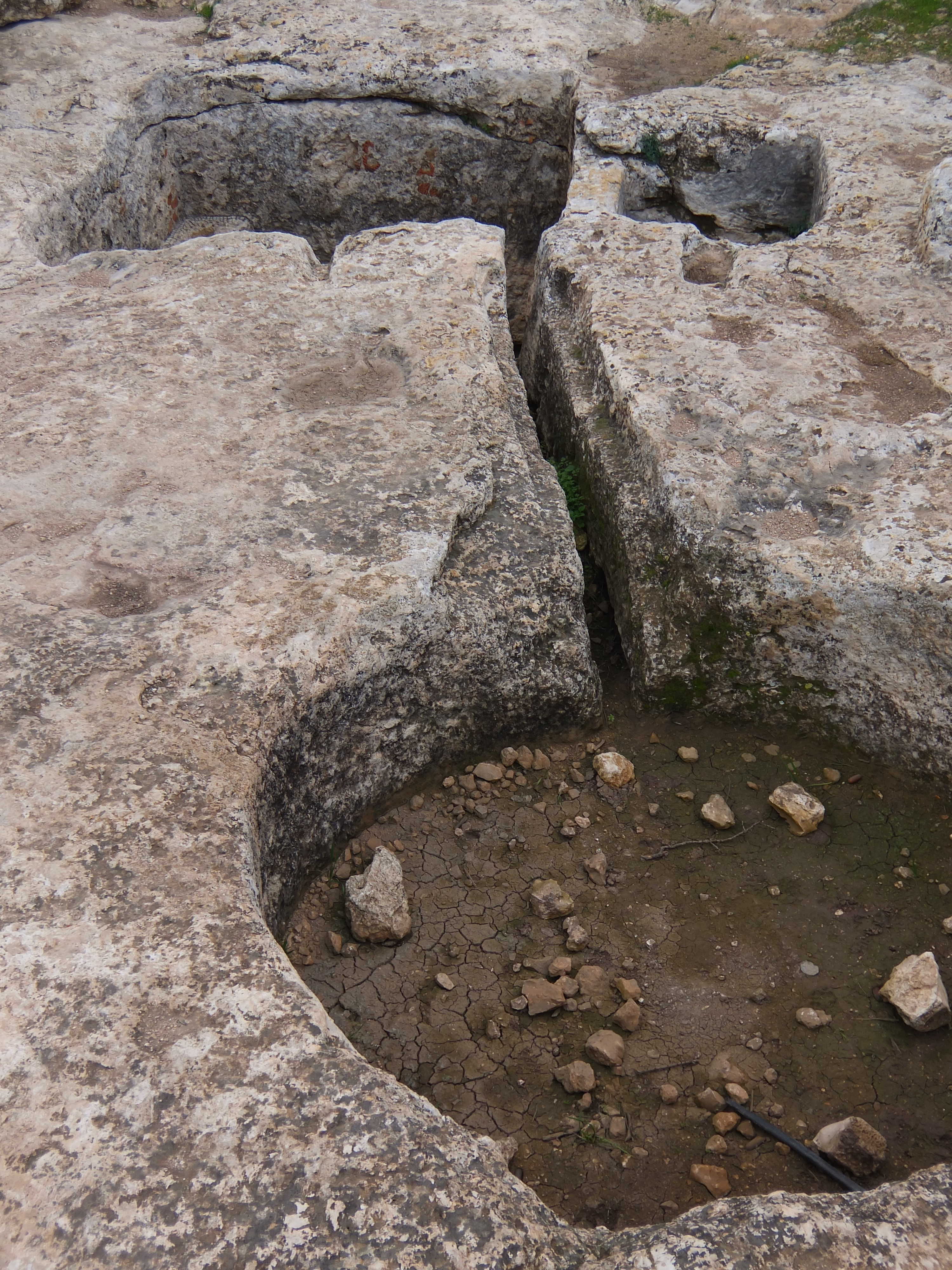 A Wine press carved into the rock at the ruin of Hurvat Itri (Israel)